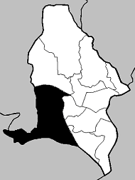 Location of Venteira parish in Amadora municipality. Map created by Brian Boru in December 2005.